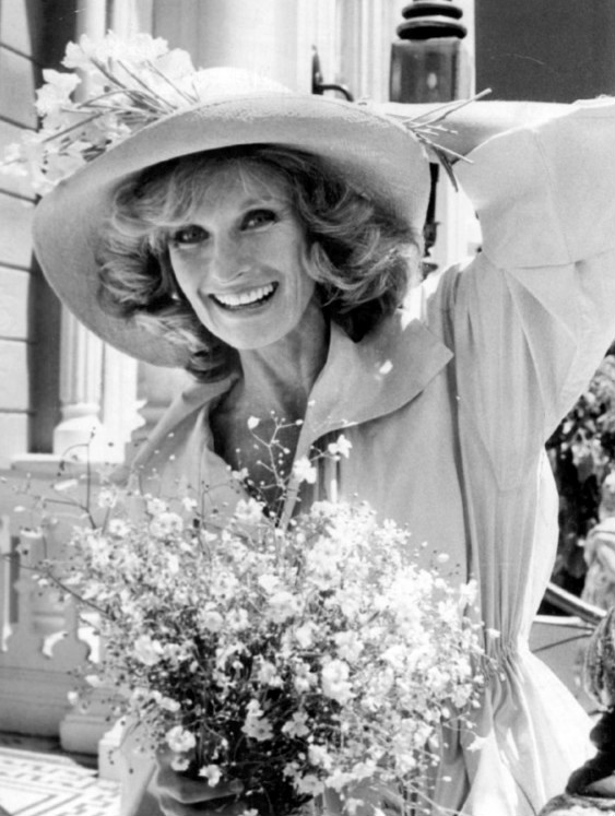 Publicity photo of Cloris Leachman from the television program Phyllis.